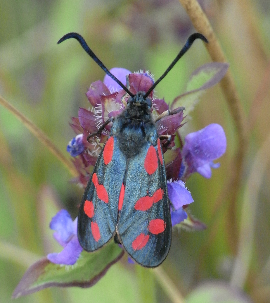 Six-spot Burnet (Zygaena filipendulae) near Hamburg, Germany.